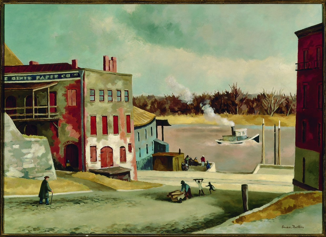 Andrée Ruellan (American, 1905-2006) Savannah, c. 1942 Oil on canvas 26 x 36 ½ inches Telfair Museum of Art, Savannah, Georgia Museum purchase, 1998.8 © Daniel B. Gelfand